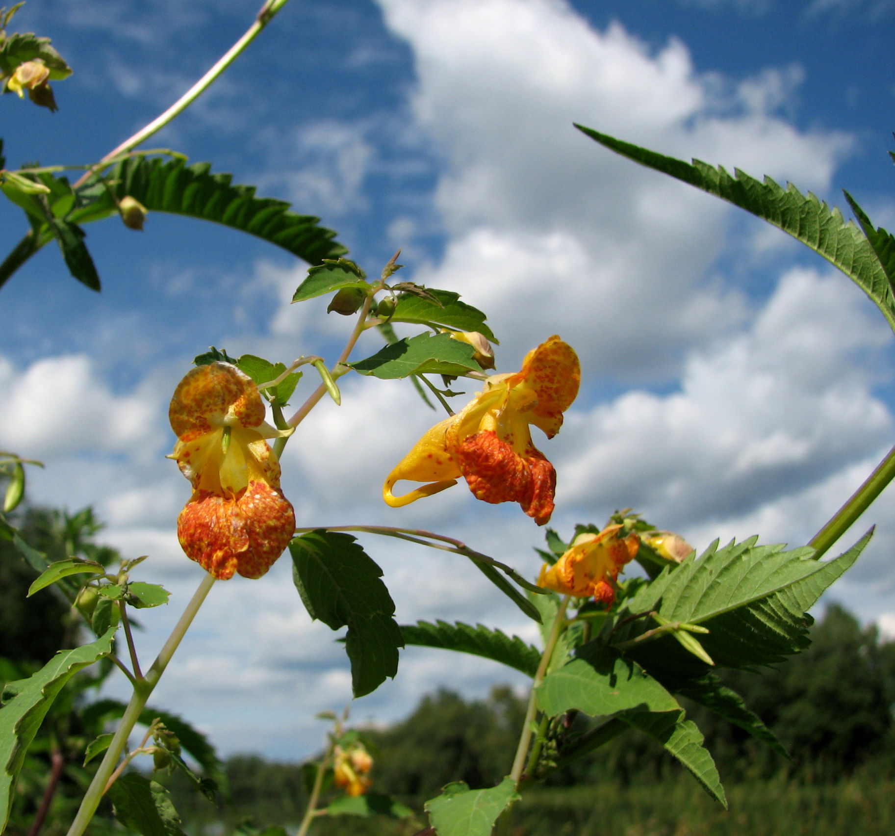 Orange Jewelweed (Impatiens capensis), Ottawa, Ontario, Canada